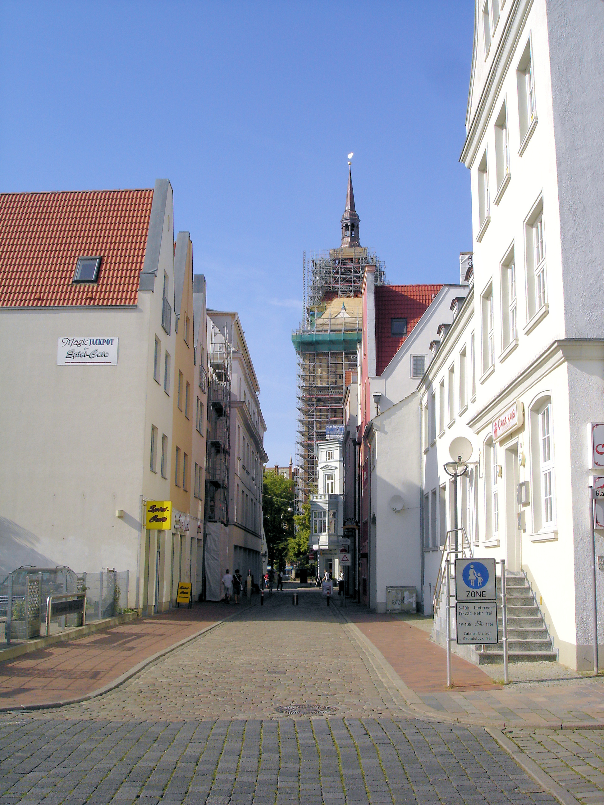 Street in the historic city of Rostock